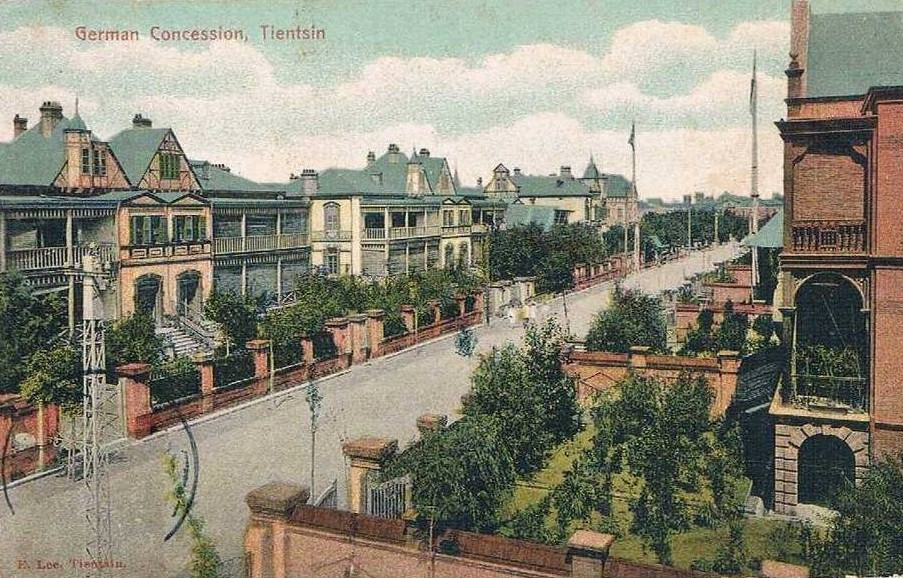 German Concession of Tientsin (Tianjin). Postcard published circa 1910-1912.